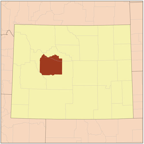 Map of the Wind River Indian Reservation.